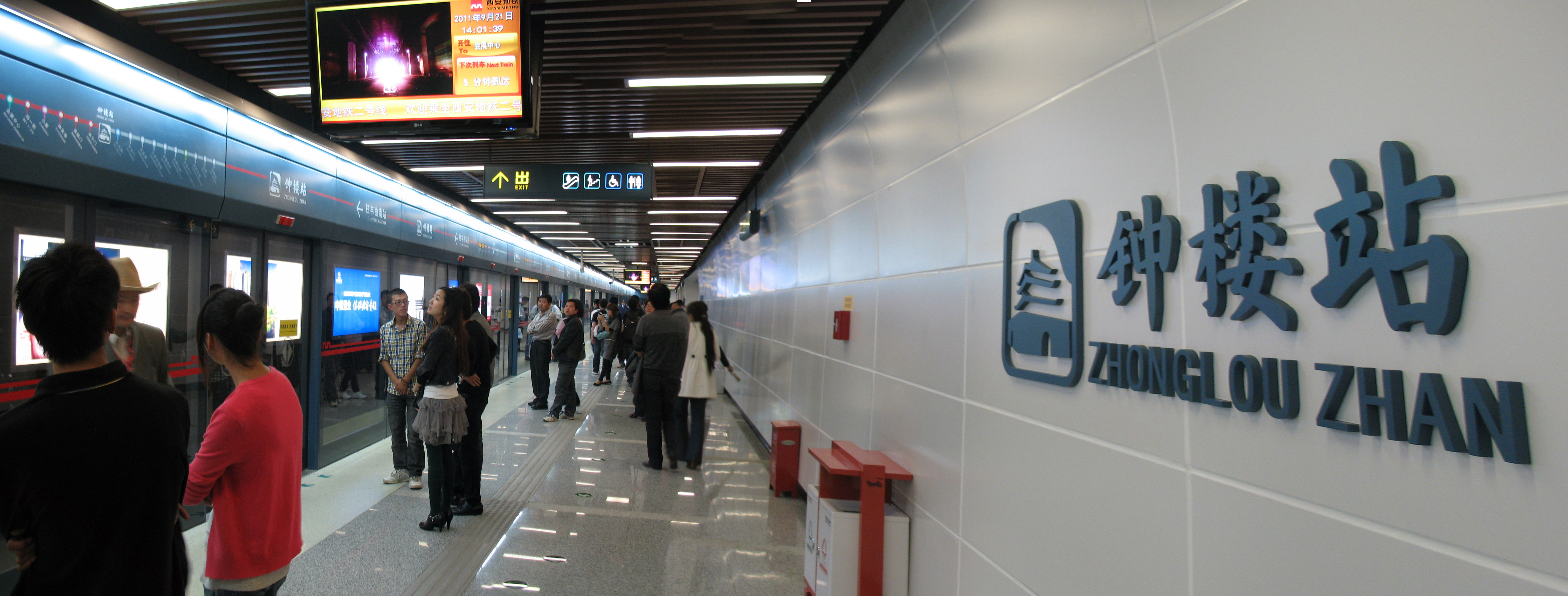 bell tower station of Xi'an Metro